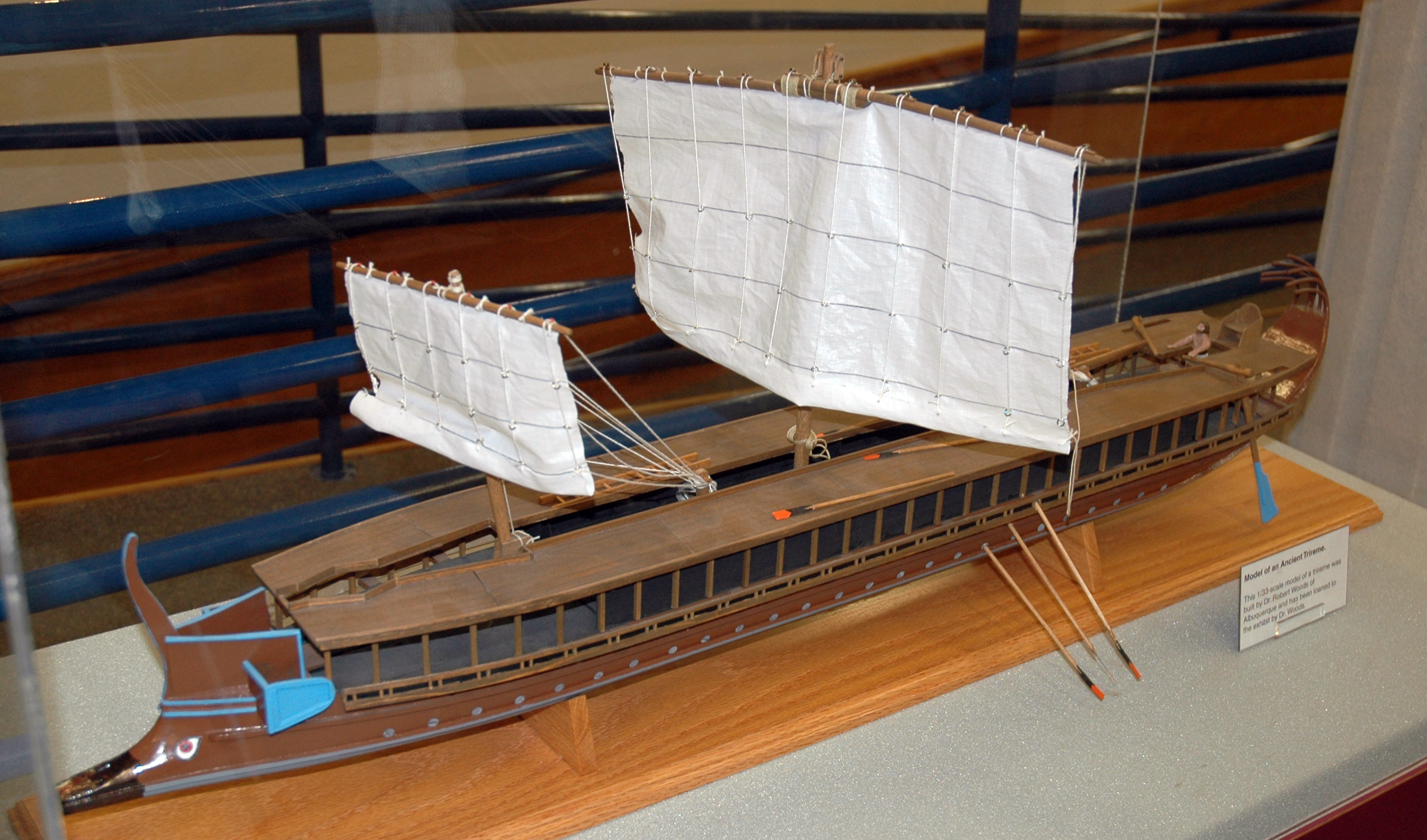 Not sure why this is in the NAM collection, but I'm a sucker for slave powered mobility. Part of the collection of the National Atomic Museum in Albuquerque, New Mexico.NAM - Trireme